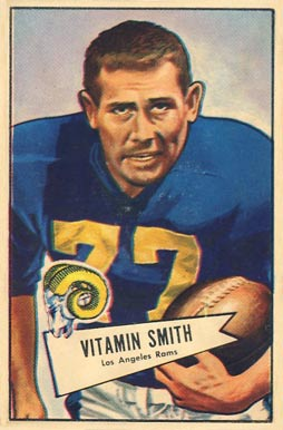 American football player Vitamin Smith on a 1952 Bowman Large card.